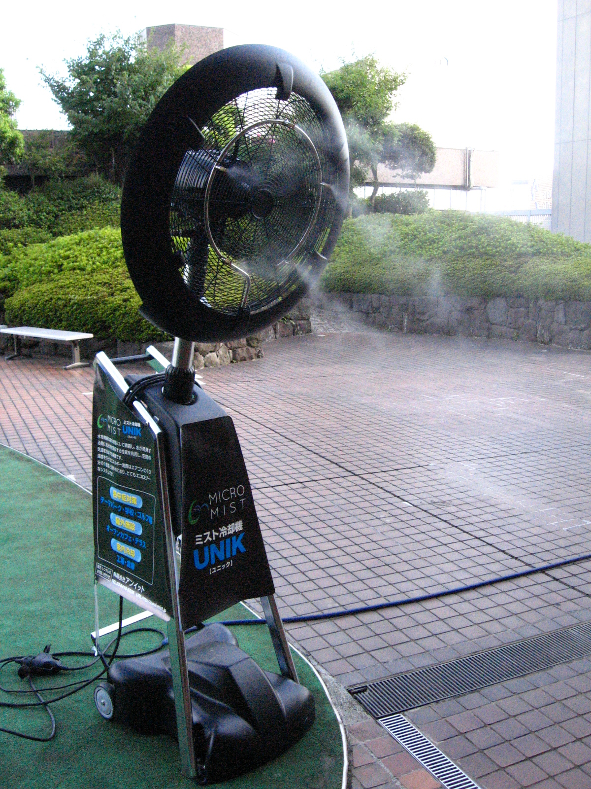 Micro mist machine